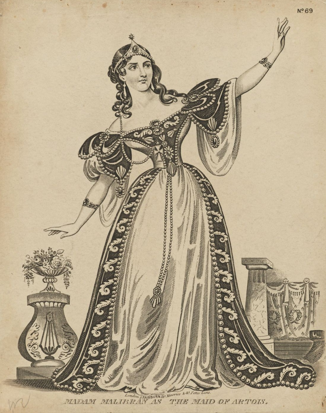 Engraving: "Madam [Maria] Malibran as The Maid of Artois." Undated, but presumably before 1836. Theatrical Portrait Prints (Visual Works) of Women (TCS 45). Harvard Theatre Collection, Houghton Library, Harvard University